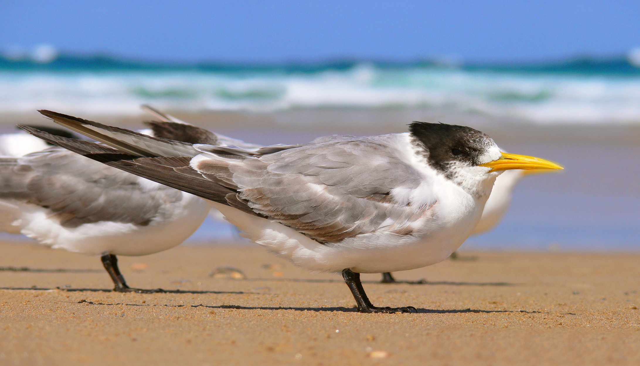 A crested tern in first year plumage. Thalasseus bergii (Syn. Sterna bergii)